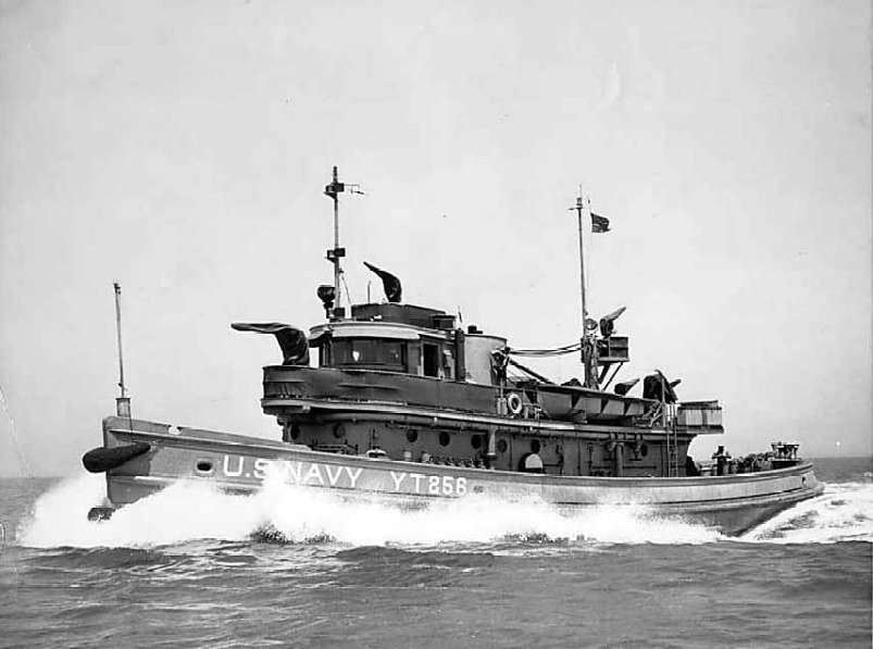 Menoquet (YTB-256) underway in the South Pacific, circa 1944. US Navy photo courtesy Dave Spencer, BMCM, USCG (Retired), via the National Association of Fleet Tug Sailors (NAFTS).